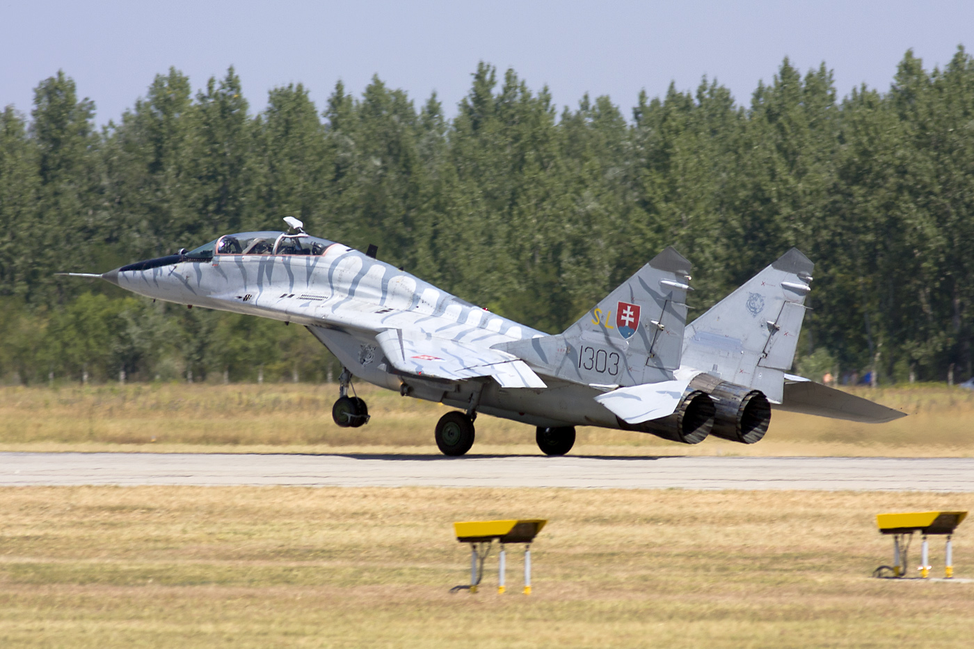 The most photographed MiG-29 ever arriving at Kecskemet (Hungary) for the airshow in 2013. Tiger 1303 of 1. Bojová letka is based a Sliac. The Slovaks had 24 Fulcrums in total, of which some 12 are left in service. Most of the others are either preserved or stored at Sliac.